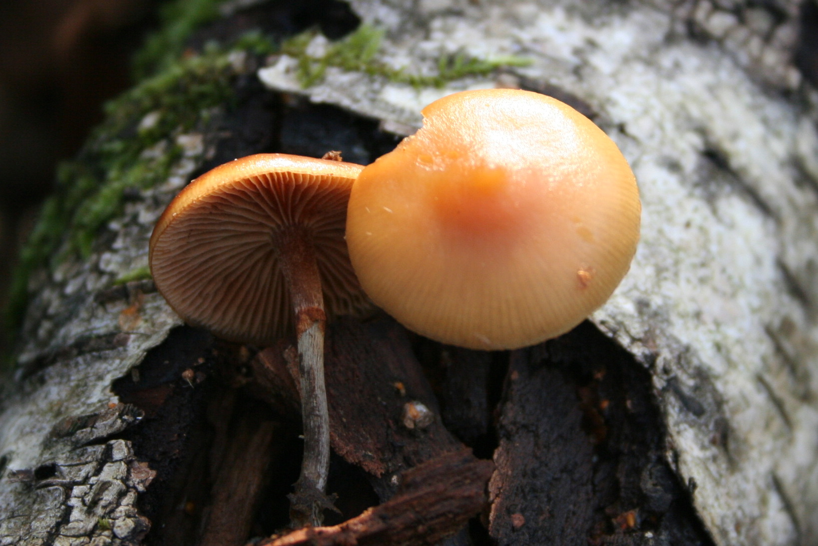 Galerina marginatain a wood near Paris, France.